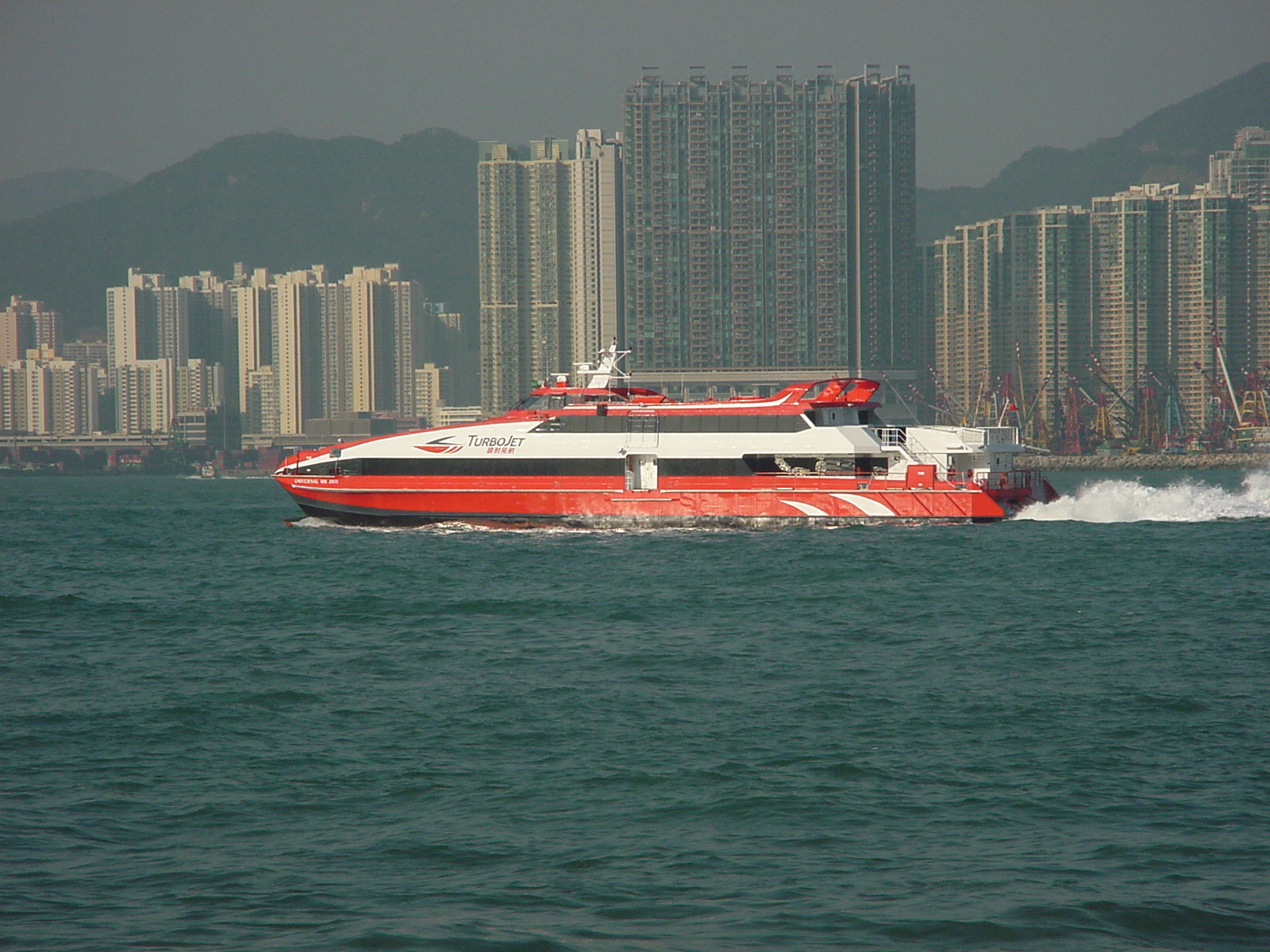 TurboJET's Universal MK 2011 Austal 48m catamaran